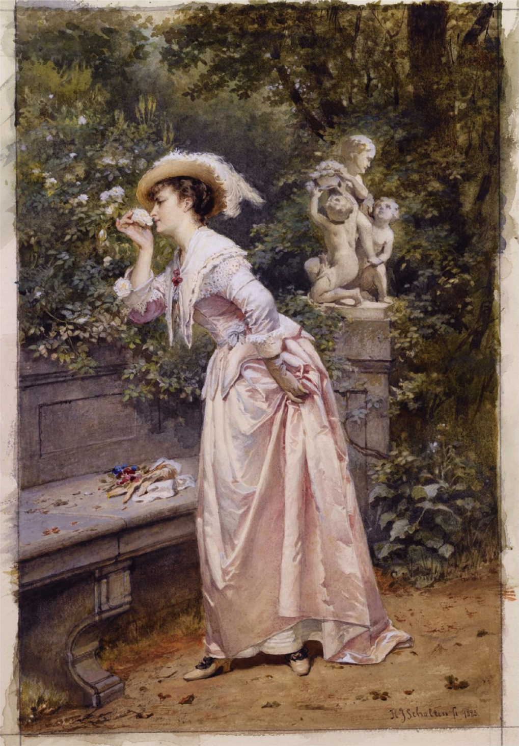 An elegant lady smelling roses signed and dated 1883 l.r.